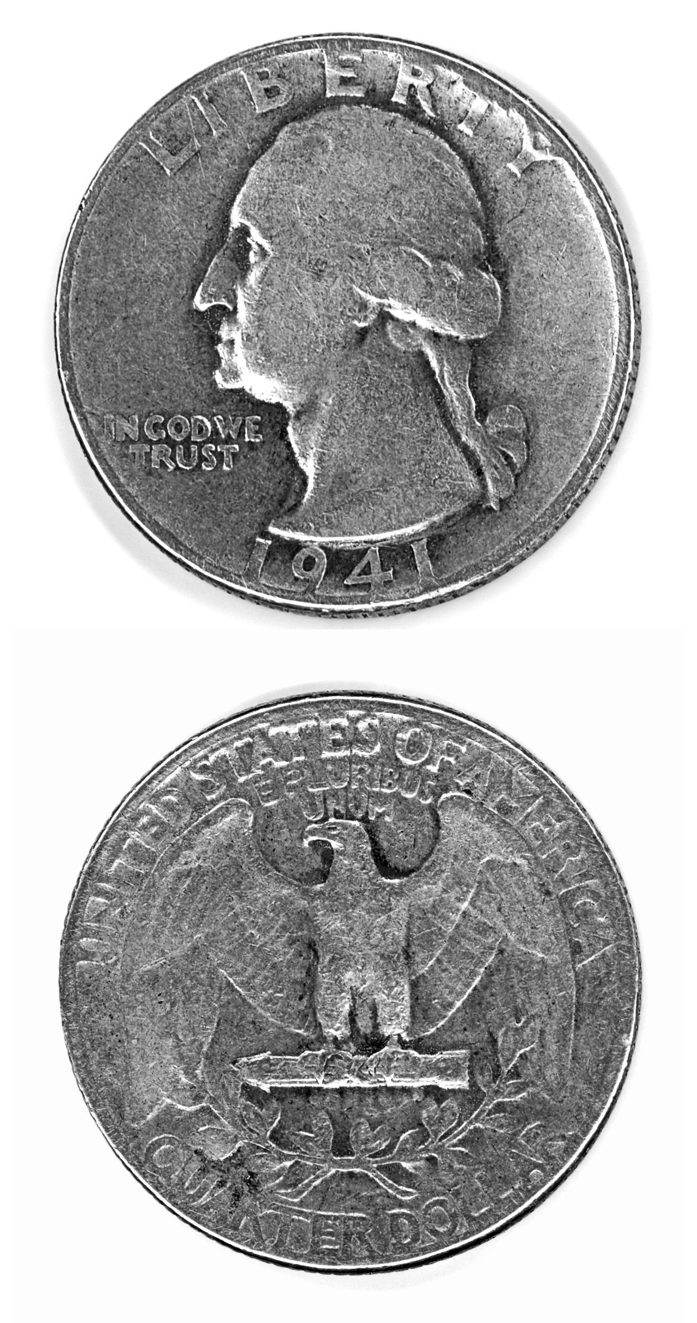 Quarter Dollar (USA), 1941, George Washington, Vorder- und Rückseite